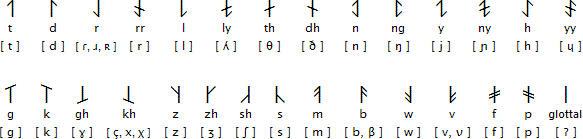 Ewellic alphabet - consonants with phonetic transcription. - Omniglot: All consonants have a single vertical stroke and no horizontal (perpendicular) stroke.